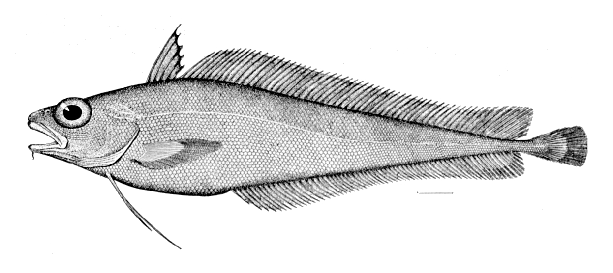 Shortbeard codling Laemonema barbatulum (Gadiformes: Moridae).